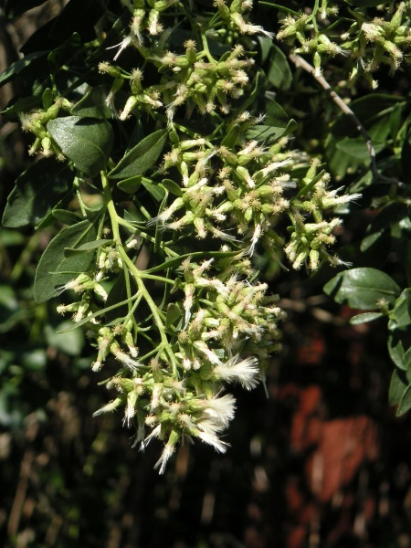 Baccharis halimifolia, Gradignan, Gironde, France, jardin